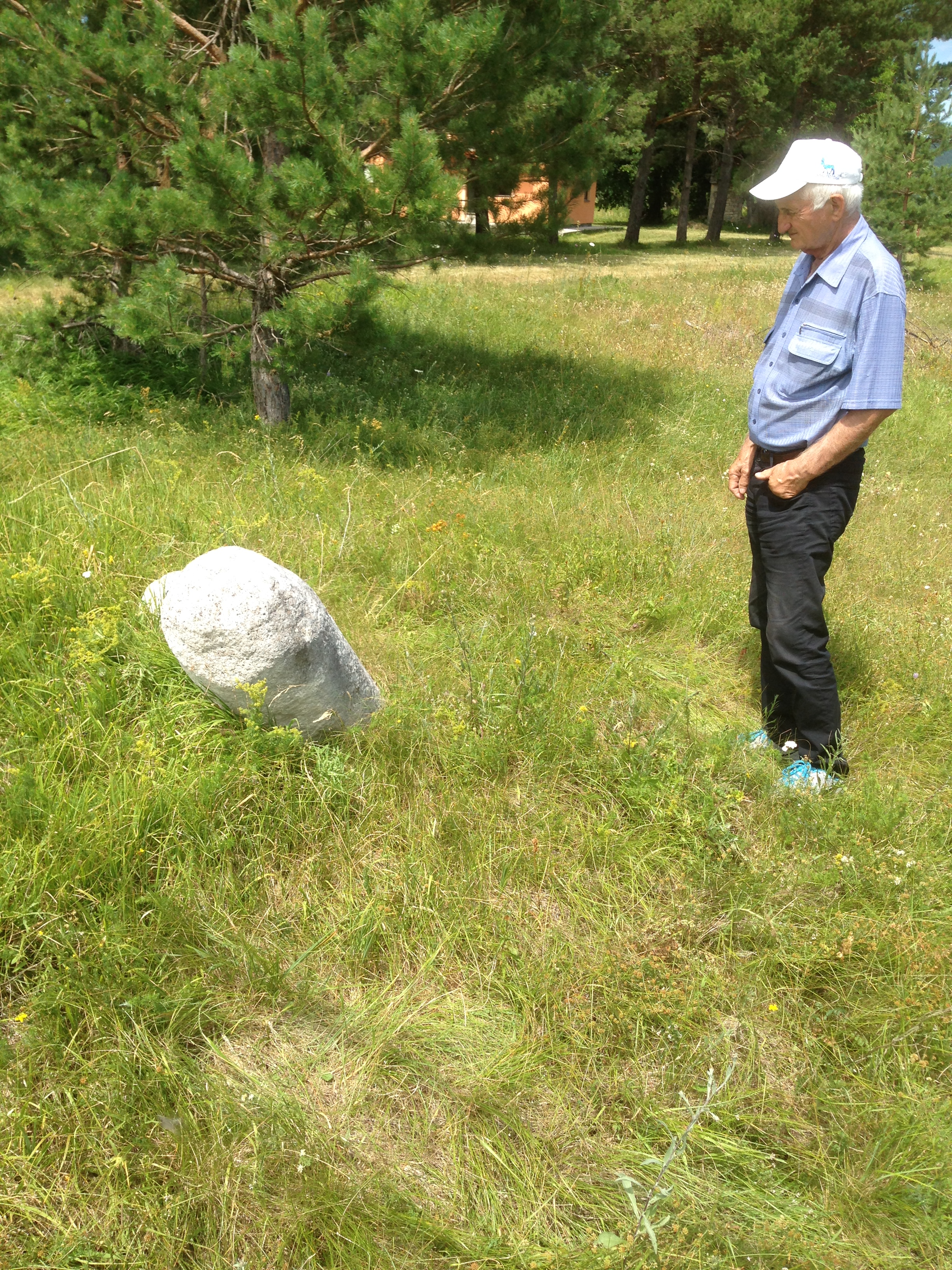 Miliaria Roman Bosanski Petrovac (Bare)